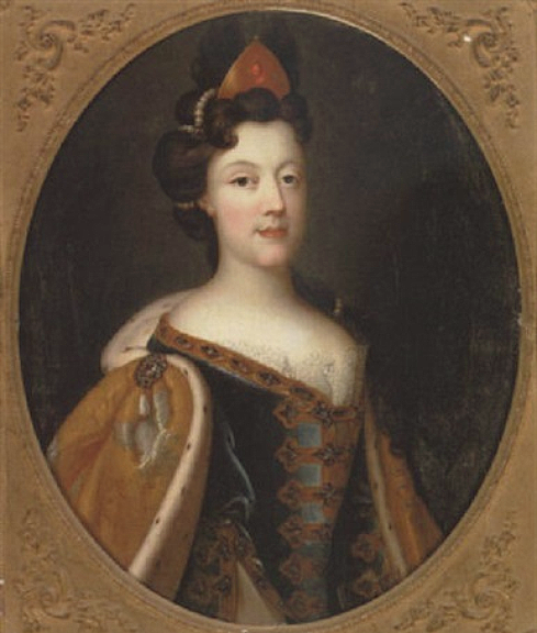 Presumed portrait of Élisabeth Charlotte d'Orléans (1676-1744), so-called Princess Gabrielle-Charlotte